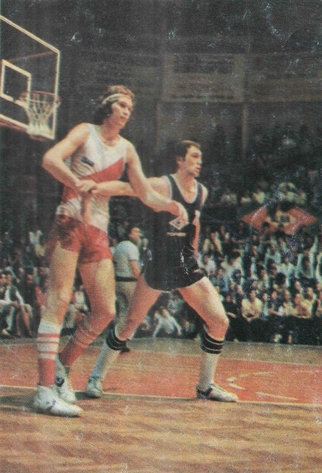 River Plate basketball player Pétur Guðmundsson in 1980.